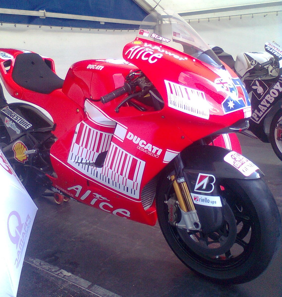 Casey Stoner's bike in Brno